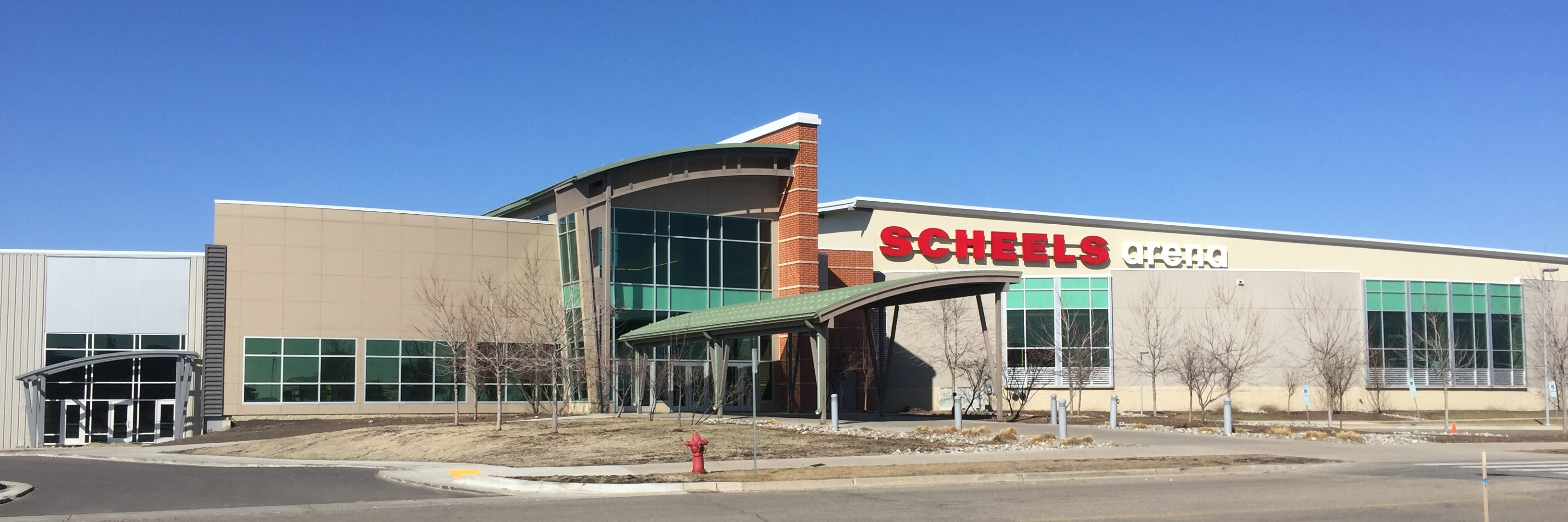 This image was taken outside of the Scheel's Sports Arena where The Force and many other hockey teams come to play the sport they love for the Fargo/Moorhead area to see with great food and drinks! Not only is this an arena for sports, but also for major events and concerts!